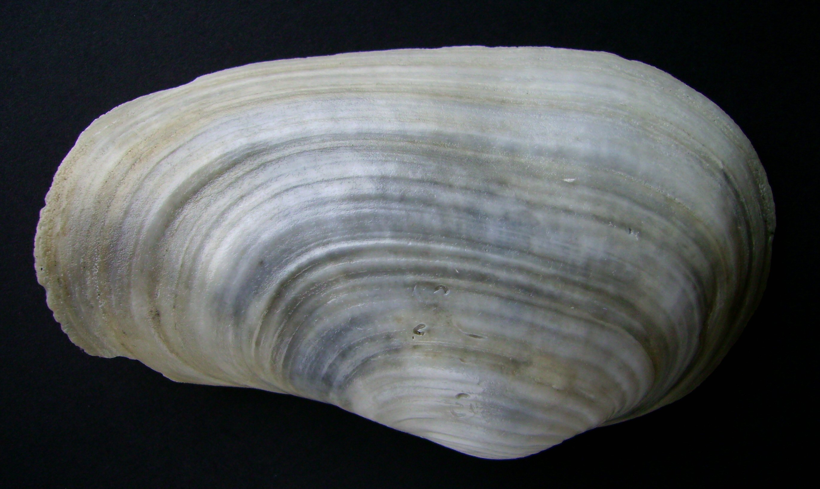 Panopea zelandica from Pakiri Beach, New Zealand. This work has been released into the public domain by its author, Graham Bould. This applies worldwide.In some countries this may not be legally possible; if so:Graham Bould grants anyone the right to use this work for any purpose, without any conditions, unless such conditions are required by law.